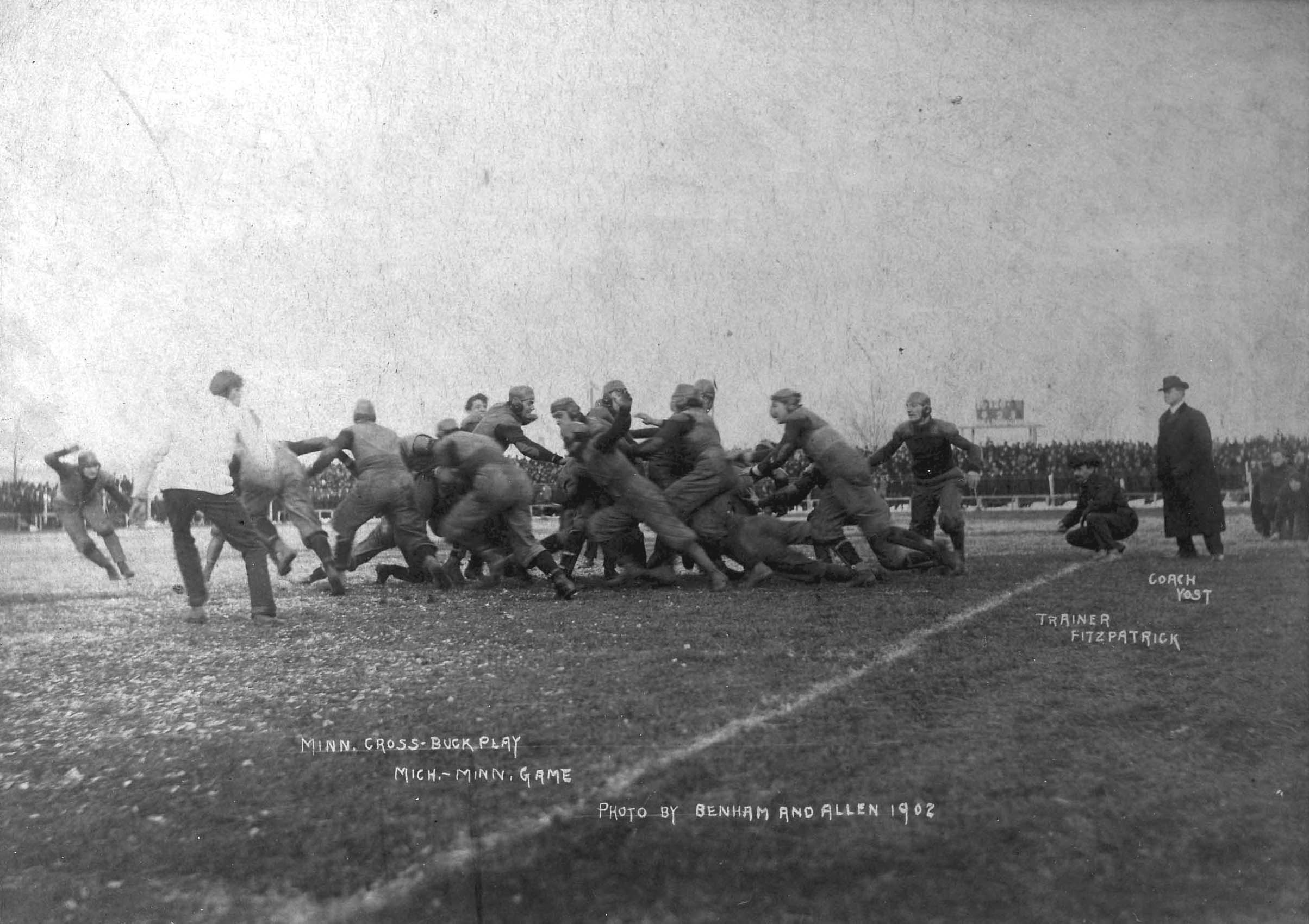 A game between the Minnesota Golden Gophers and the Michigan Wolverines football teams. Fielding Yost (Michigan coach) is the first from right.